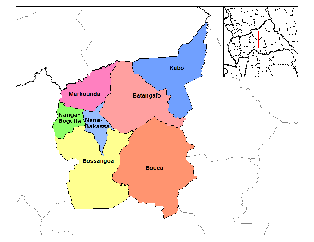 Map of the sub-prefectures of Ouham prefecture of the Central African Republic. Created by Rarelibra 20:48, 31 August 2006 (UTC) for public domain use, using MapInfo Professional v8.5 and various mapping resources.